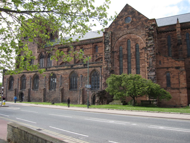 Shrewsbury Abbey Church Looking across Abbey Foregate towards the south side of the abbey church.